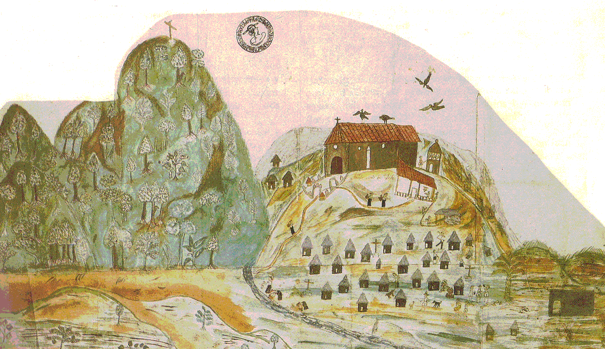 Acuarela de Tila